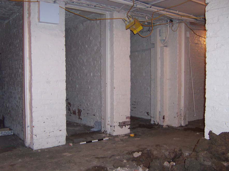 Building